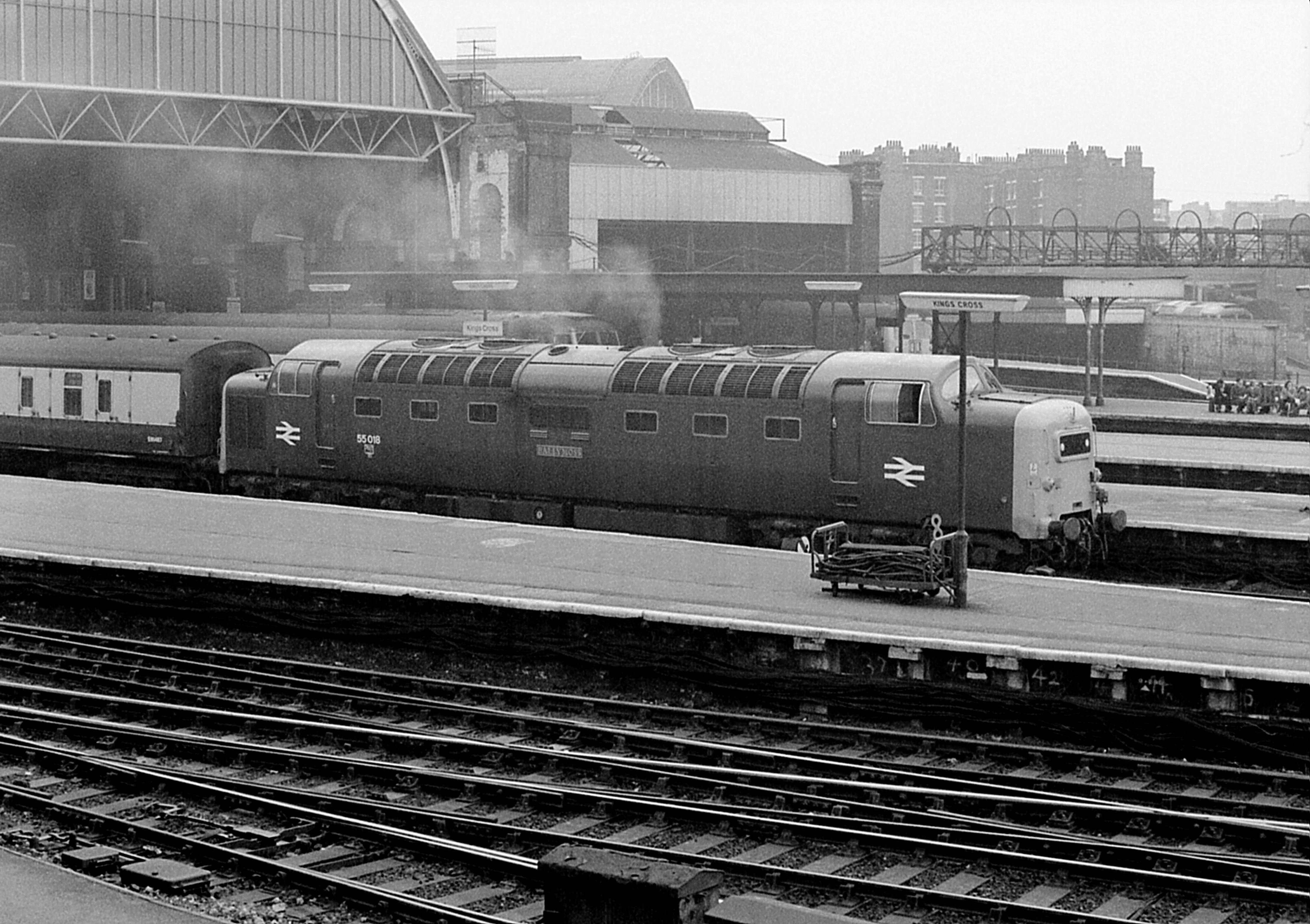 Off she goes. 'Deltic' class 55 No. 55 018 Ballymoss (Built in 1961) powers away from the platform at Kings Cross and heads for Gasworks tunnel and the North East of England. 12th April 1976. Train spotters still abound at a platform end, but the days are numbered for locomotive hauled trains and the main attraction will too soon be a thing of the past. Camera: Olympus Pen F Half Frame SLR.